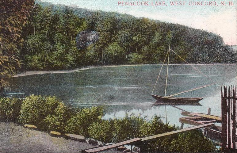 Penacook Lake, West Concord, NH; from a c. 1910 postcard.